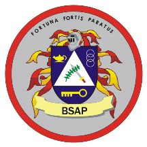 BSAP Crest